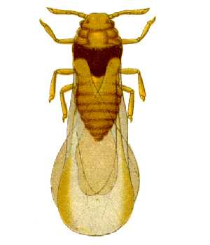 Grape phylloxera. Daktulosphaira vitifoliae (Hemiptera: Phylloxeridae)